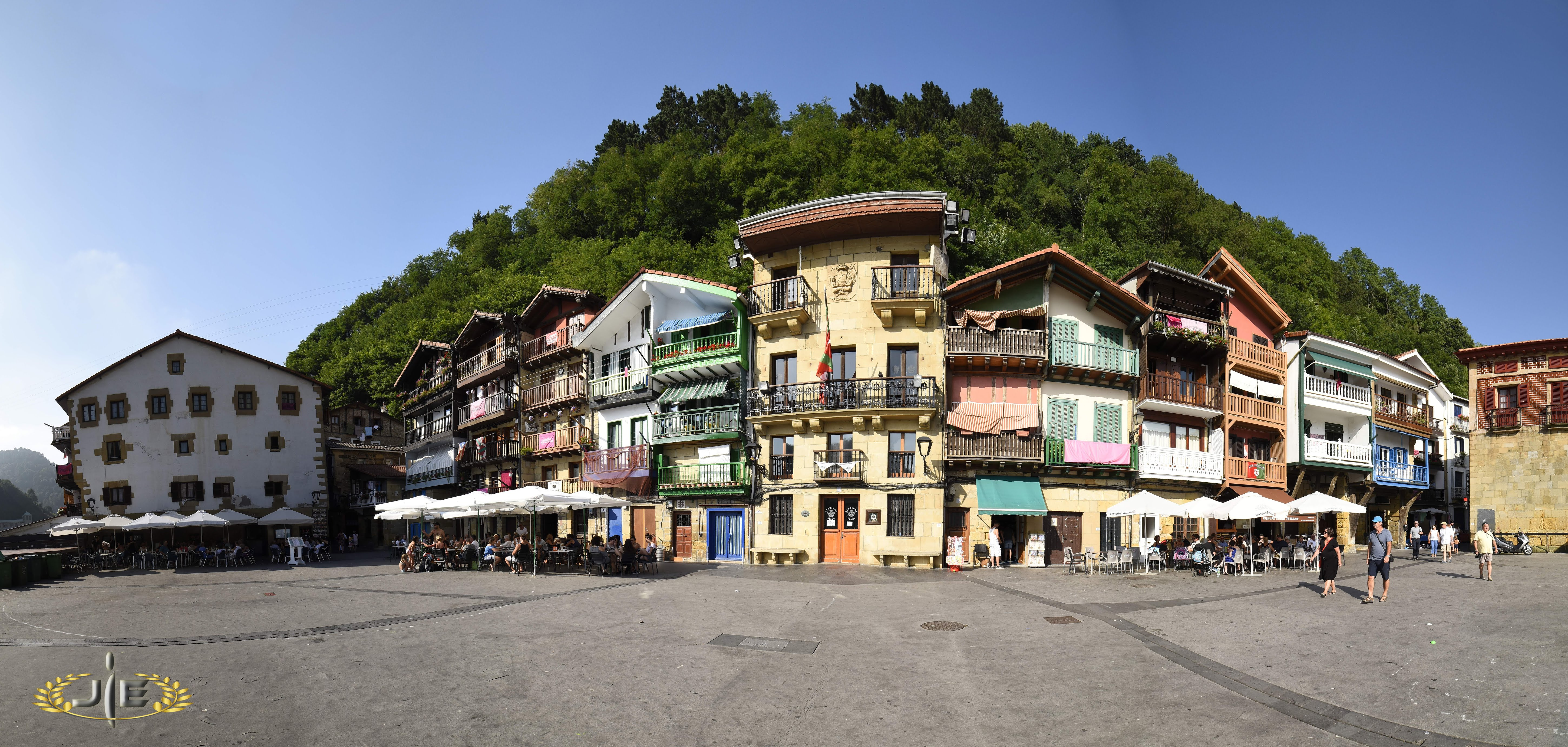 Village of San Juan also called Donibane Good Gastronomy and Interesting Monuments